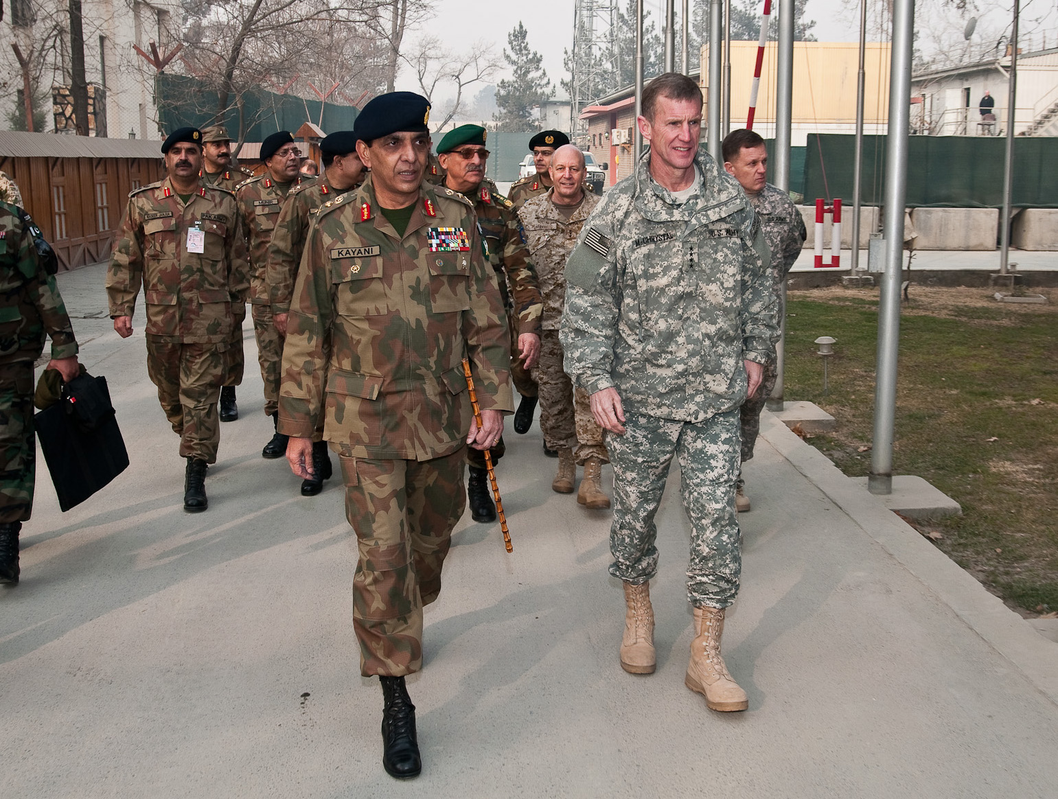 Gen. Ashfaq Parvez Kayani, Chief of Army Staff of the Pakistan Army and Gen. Stanley A. McChrystal, Commander of NATO International Security Assistance Force and U.S. Forces Afghanistan lead participants towards the conference area to meet for the 29th Tripartite Commission meeting. The Tripartite Commission, comprised of senior military and diplomatic representatives from Afghanistan, Pakistan and the United States. Photo by U.S. Army Sgt. David E. Alvarado. (RELEASED)